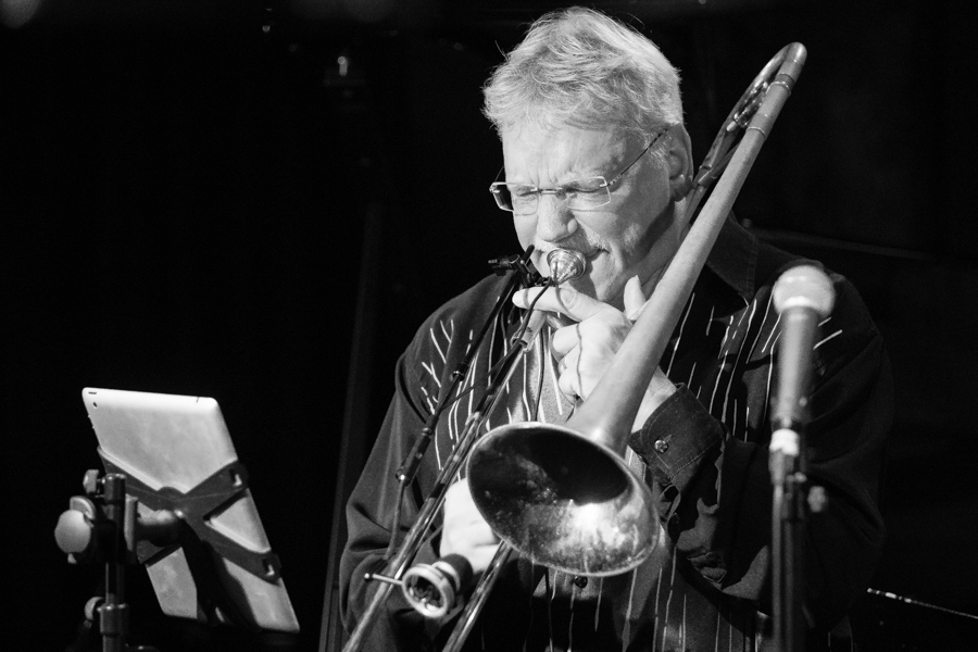 Jens Wendelboe Kvintett at Herr Nilsen. The concert was part of Oslo Jazzfestival and took place on 13. August 2019 in Oslo. Lineup:Jens Wendelboe (trombone)Magnus Bakken (saxophone)Ellen Brekken (double bass)Torgeir Koppang (piano)Erik Smith (drums)Stephanie Harrison (backing vocal)